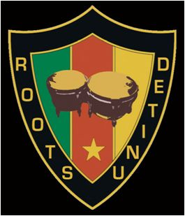 Concrete Jungle Urban Roots Music Wappen